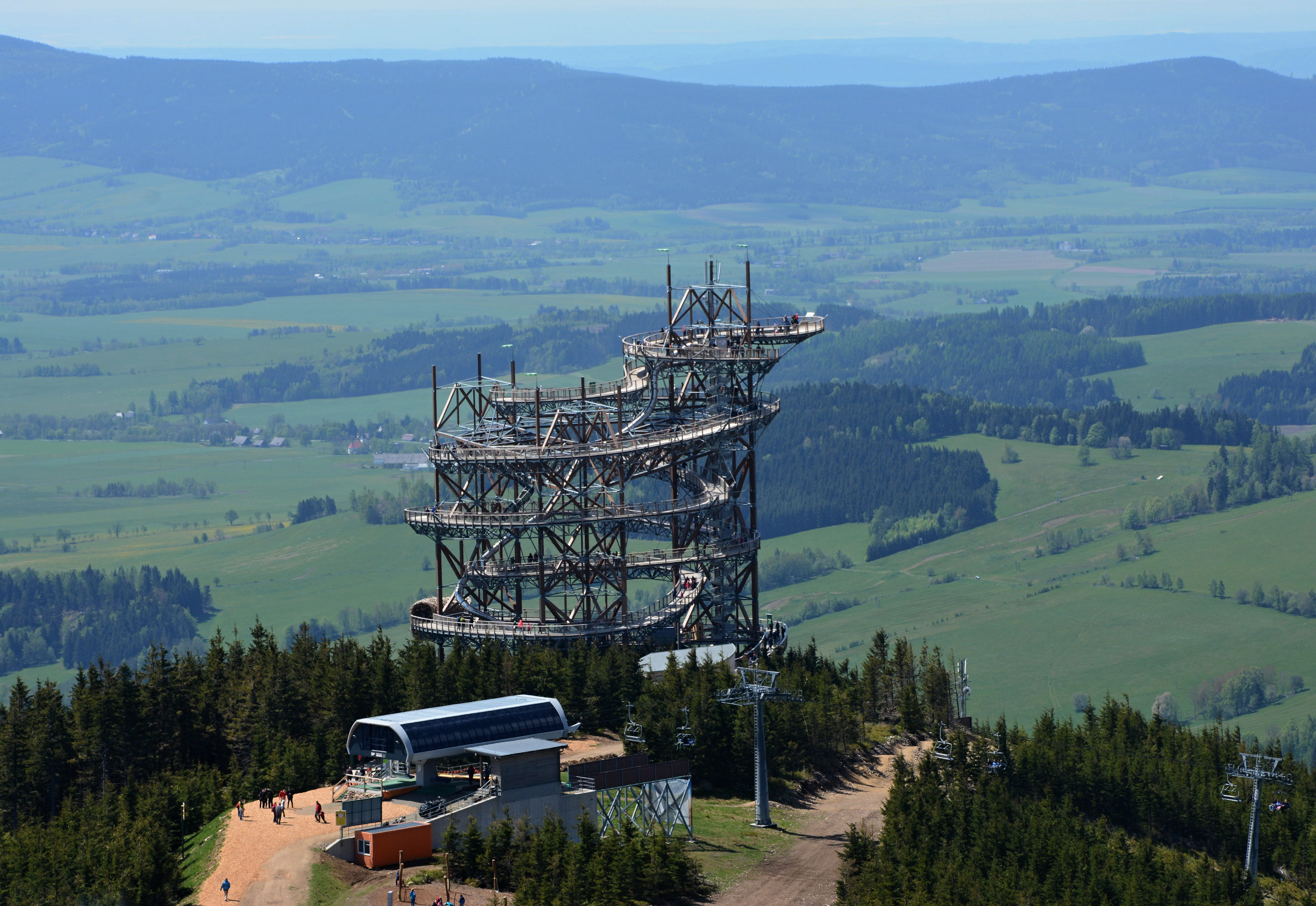 Sky walk; Dolní Morava, Czech Republic